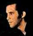 Federico Galiana. Jazz/Spirituals/Folk singer. Argentina. Member of Opus Cuatro.